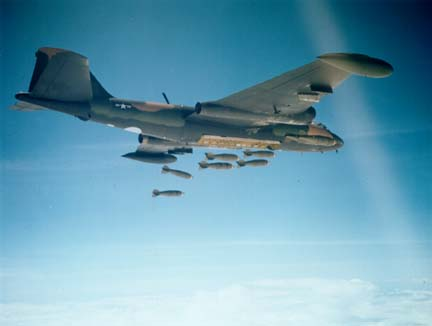 PD per Edwards AFB website privacy notice.